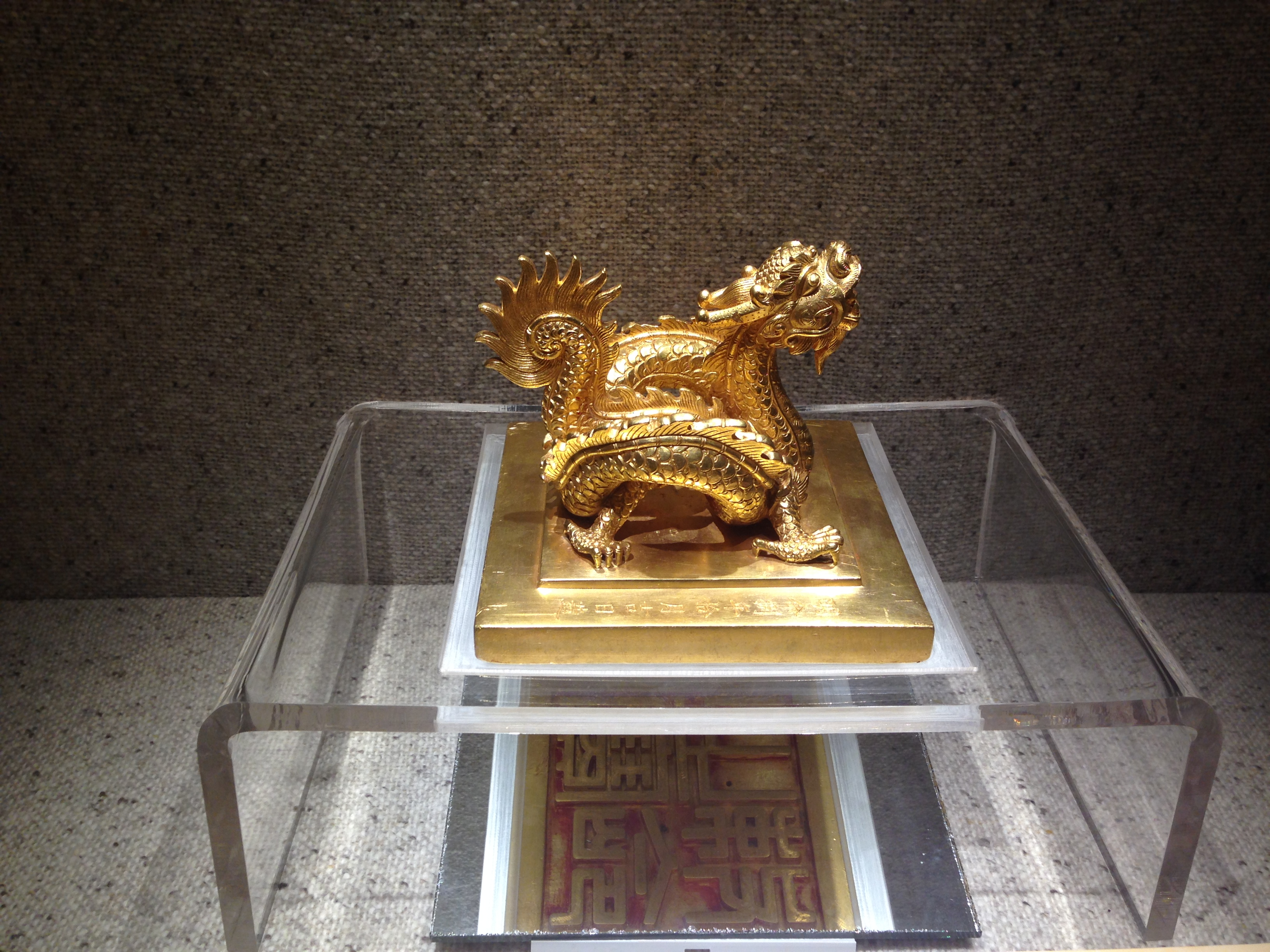 Golden seal "Royal Decree", 1827, 14×14×11 cm, Viet Nam National Treasure